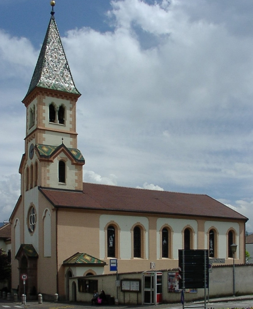 This church was built by A. von Geppert in the time from 1883-1886.